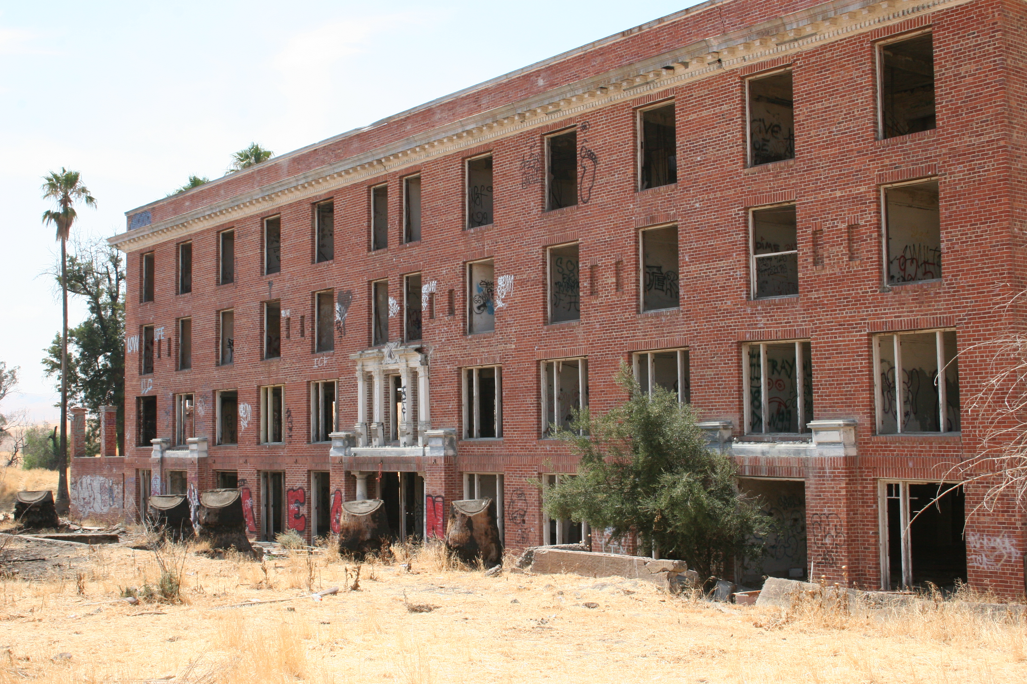 Byron Hot Springs Hotel, August 2008. This Hotel was part of a Resort frequented by Hollywood-stars and top athletes. Later it became Camp Tracy, a interrogation facility in WWII.